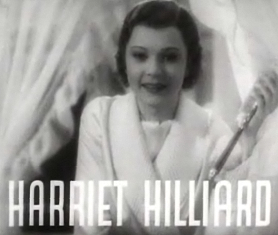 Cropped screenshot of Harriet Nelson (billed under her maiden name, Harriet Hilliard), from the trailer for the film Follow the Fleet.